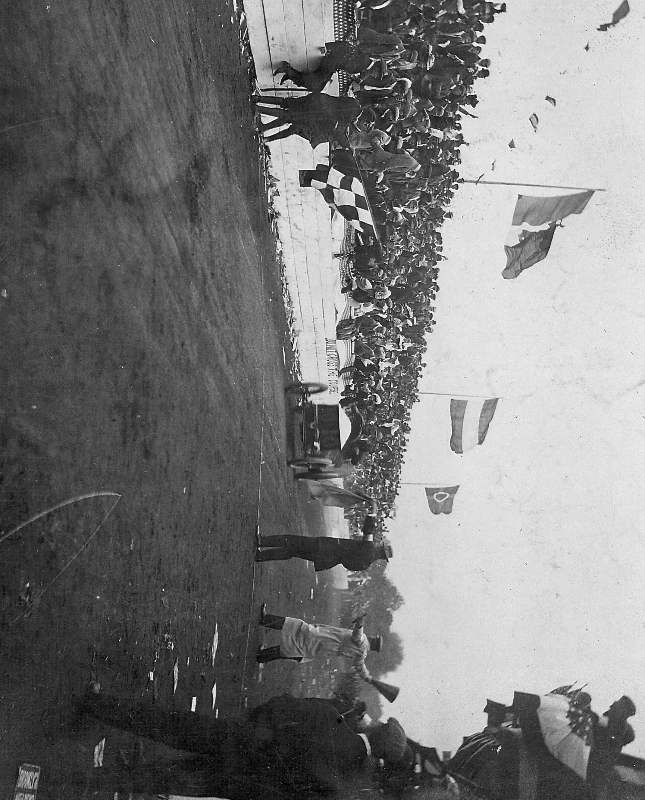 Checquered flag - the winner of the 1906 Vanderbilt cup, French racing driver Louis Wagner (Darracq; #10) crosses the Finish line 3 minutes and 18 seconds ahead of the second, Vincenzo Lancia (FIAT). First known use of a checquered flag to signal the finish of an auto race.